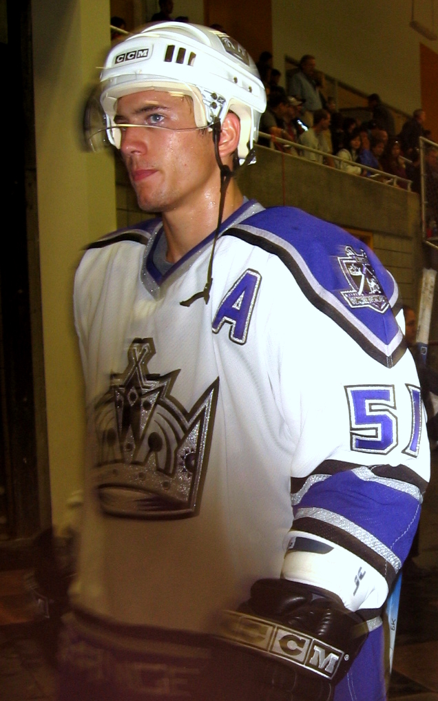 Los Angeles Kings forward Jeff Tambellini during the exhibition Pacific Division Shootout in September 2005.